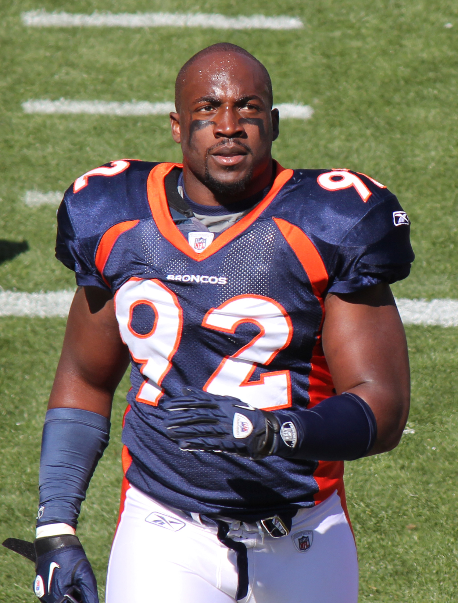 Elvis Dumervil, a player on the National Football League.